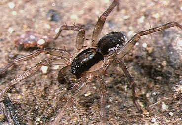 male Pirata iriomotensis from Okinawa.